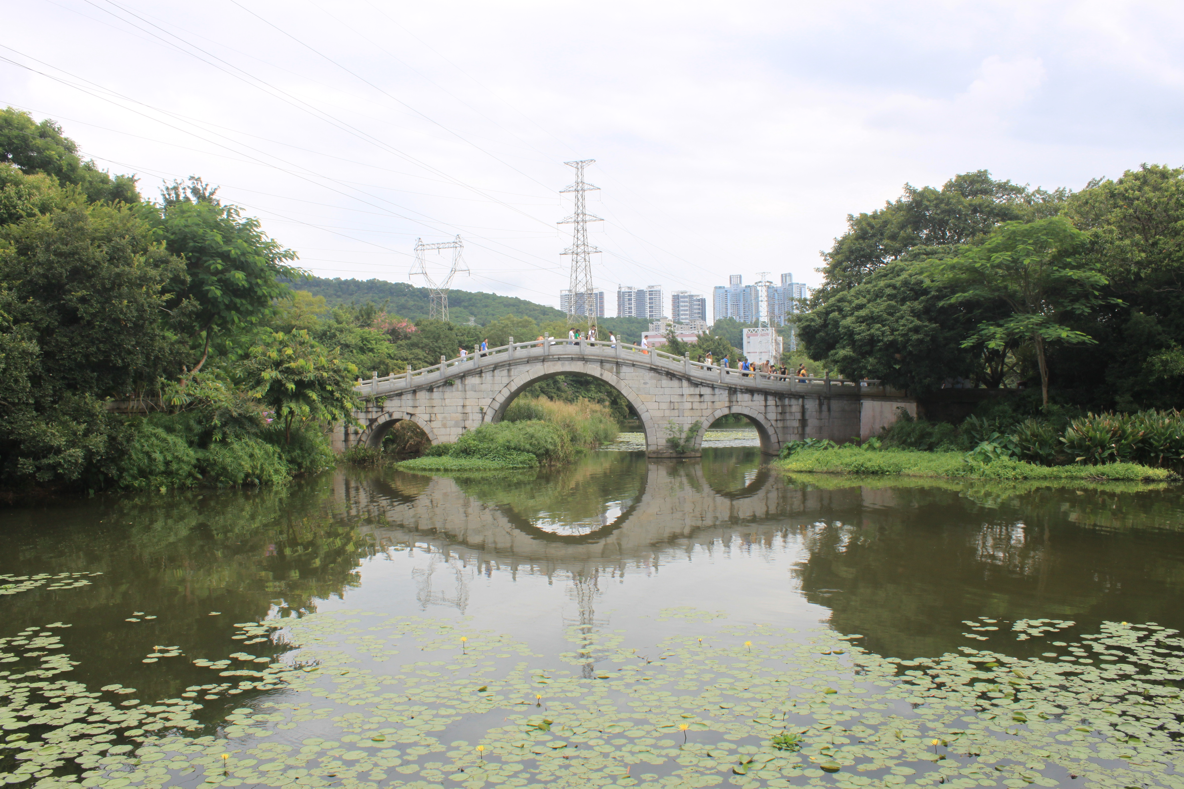 A three-arched bridge in the East Lake Park, in Shenzhen, Guangdong, China. 中文（中国大陆）: 深圳市东湖公园的一座三拱桥。